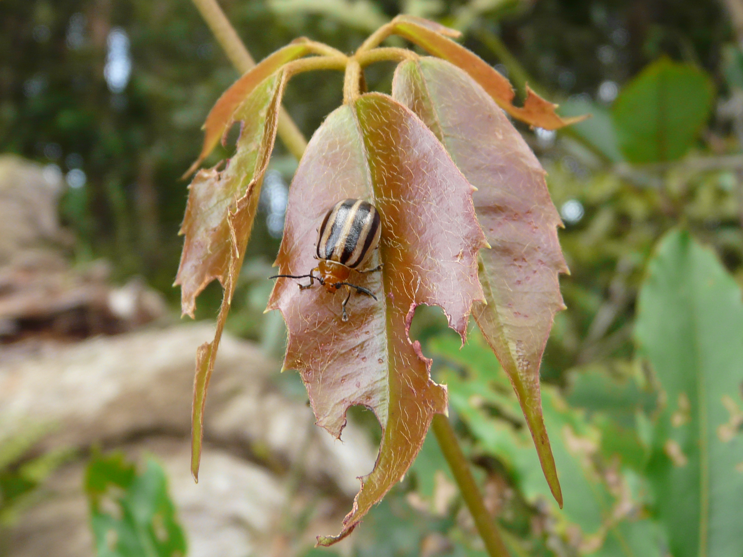 Leaf beetle (Oides fryi) on a leaf near Goomolara Falls, Springbrook, Qld.